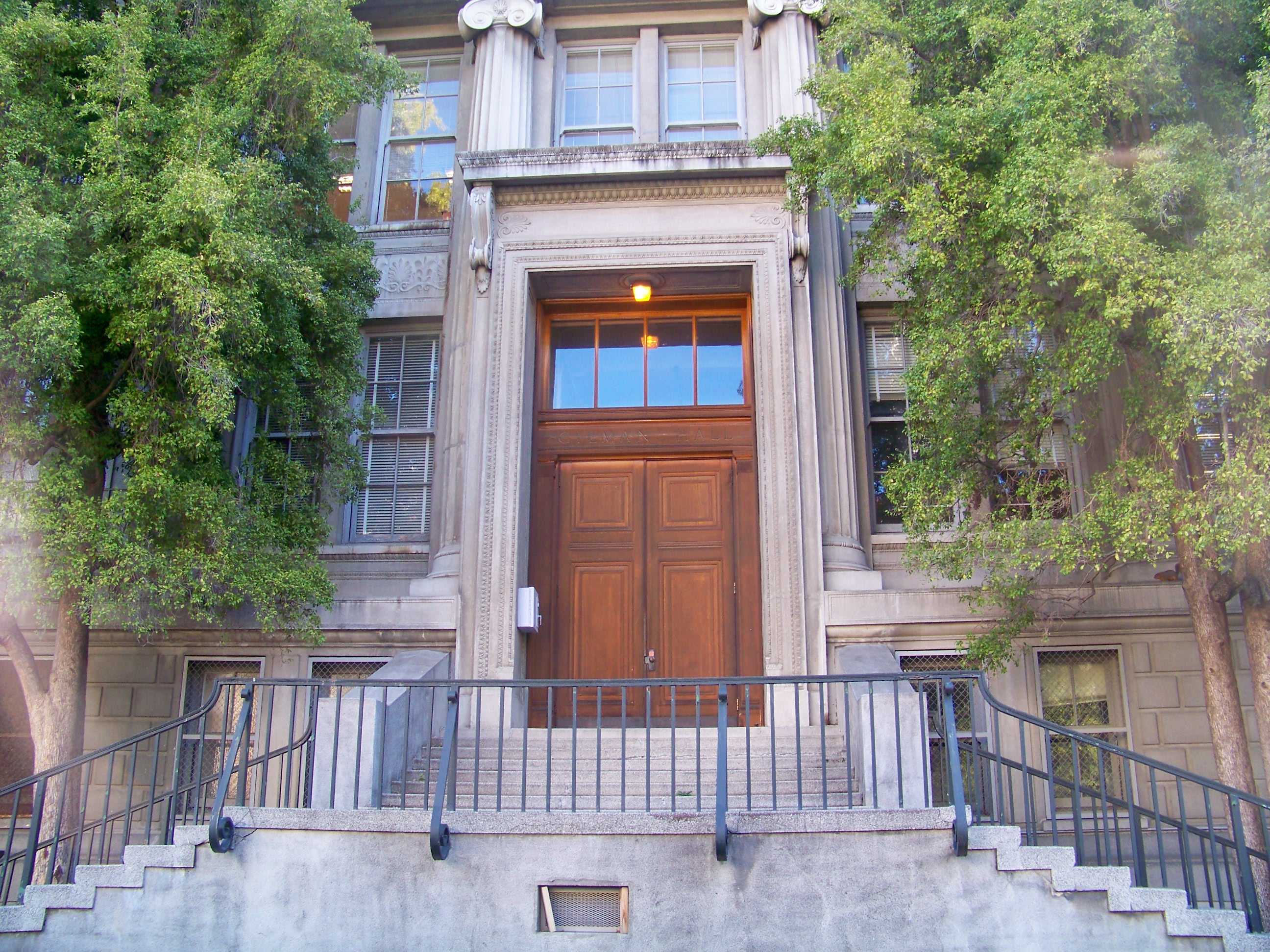 Facade of Gilman Hall at University of California, Berkeley campus. Room 307 is on the National Register of Historic Places.